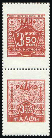 USSR revenue "radio" stamp, RADON, 3.50 rub